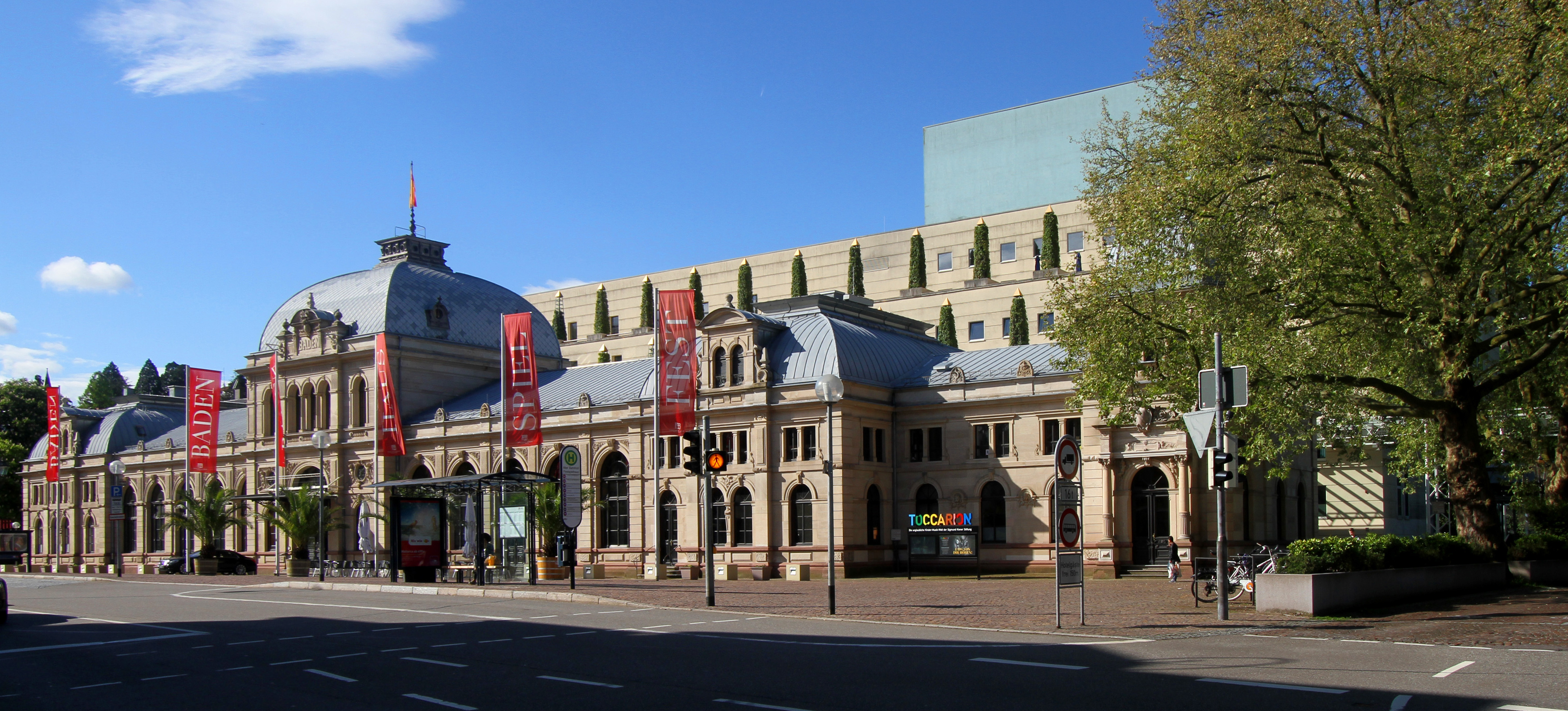 Old railway station of Baden-Baden, now part of the Festivalhall Baden-Baden.